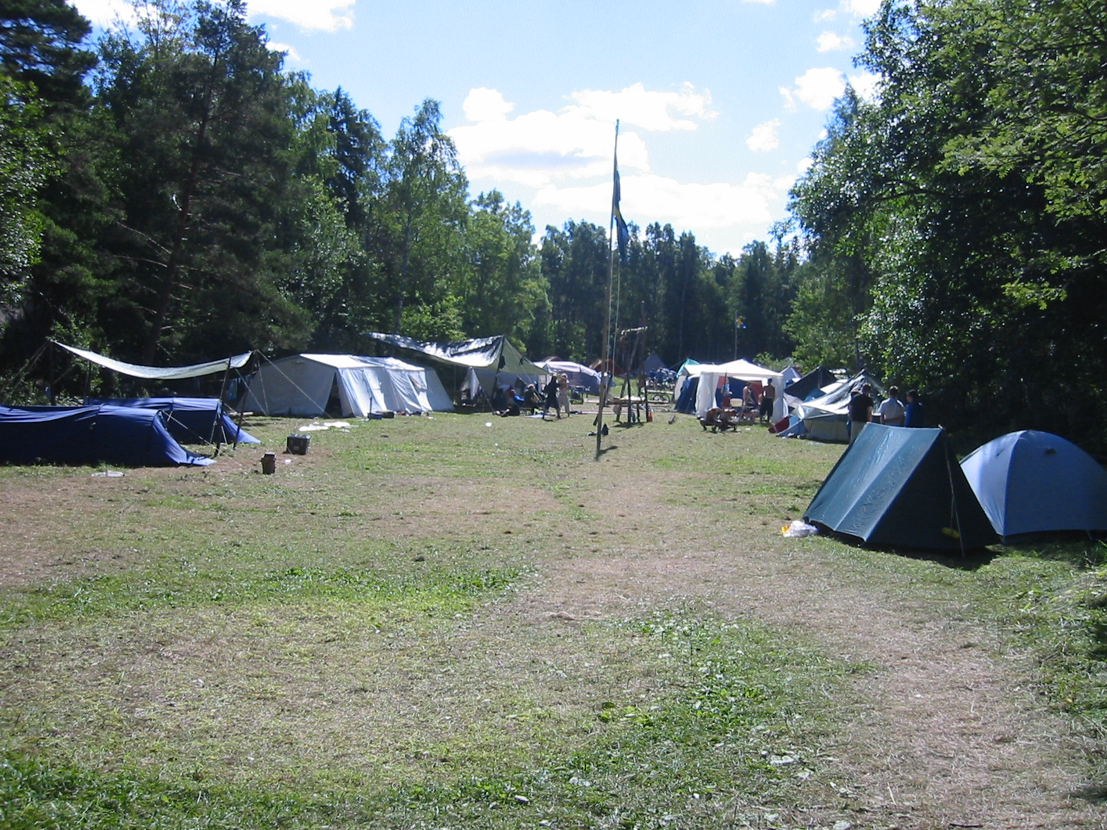 Scout camp on mellanängarna, Vässarö.